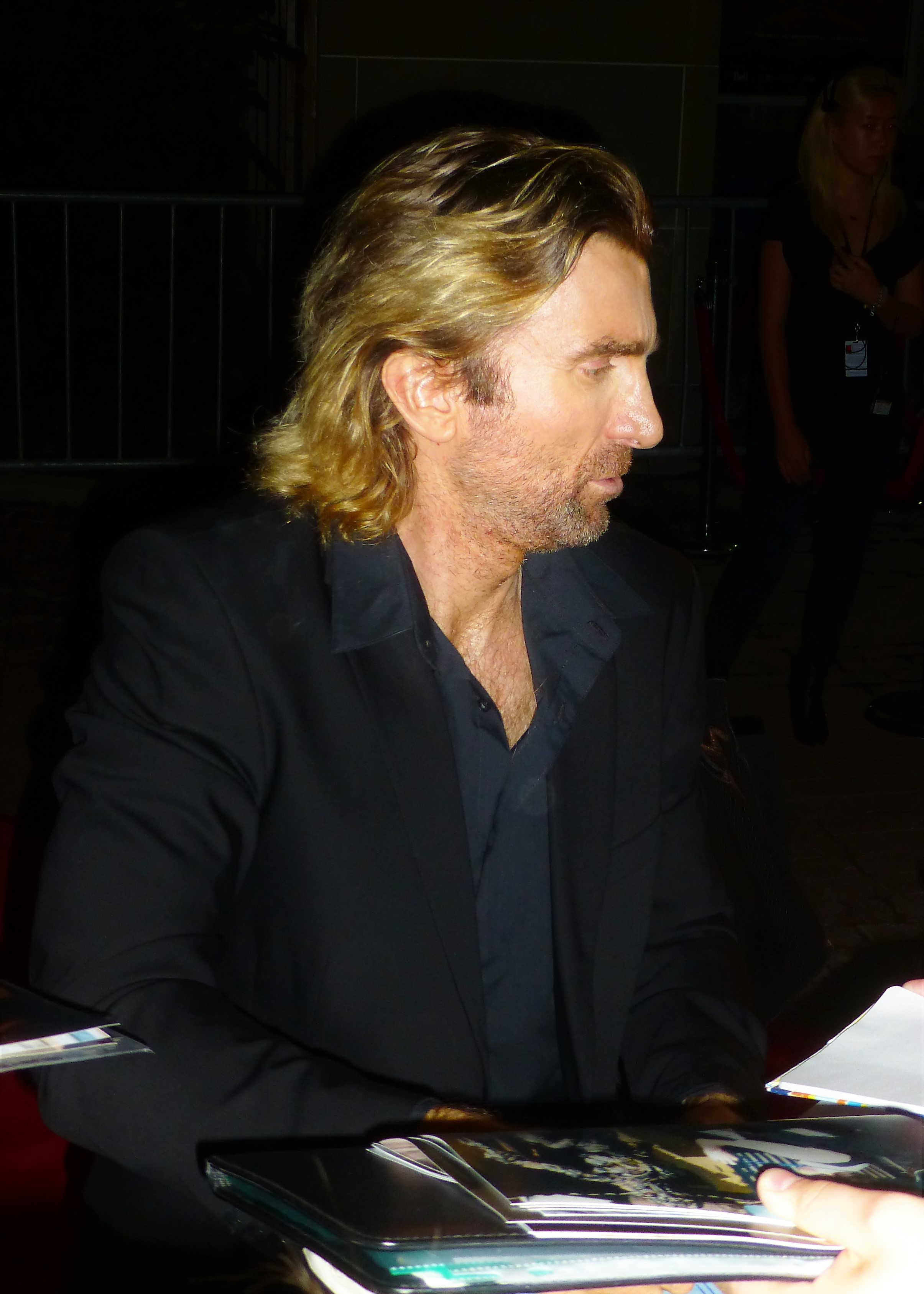 Look at that great hair. Sharlto Copley at the premiere of Free Fire, 2016 Toronto Film Festival